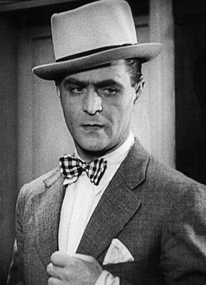 Adolf Dymsza, a still from a 1933 movie Dvanáct křesel